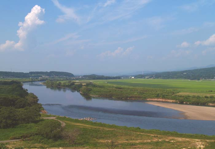 View of the Kitakami River north from the Takadachi Gekido in Hiraizumi Town, Iwate Prefecture, Japan